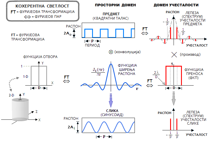 ФУРИЈЕОВЕ ТРАНСФОРМАЦИЈЕ КОХЕРЕНТНЕ СВЕТЛОСТИ